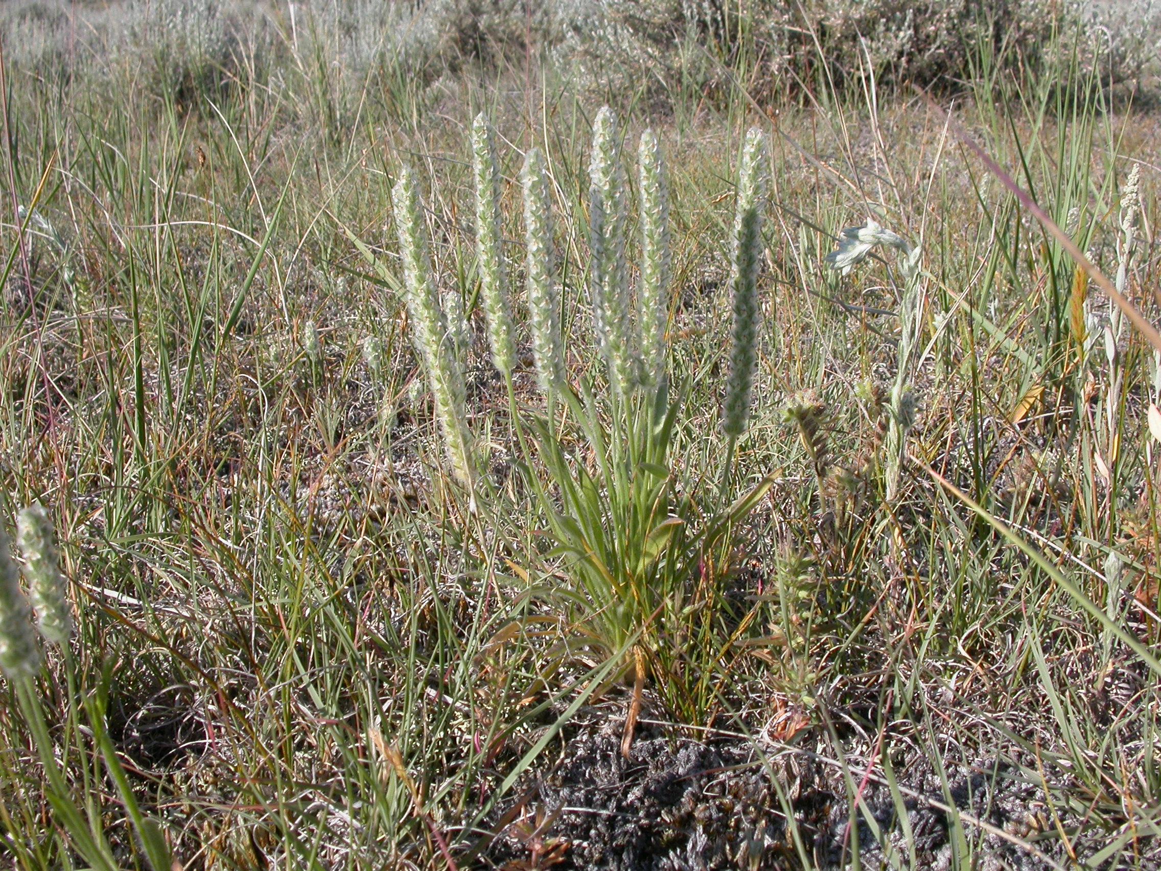 The low growing perennial is locally common in the sagebrush steppe.